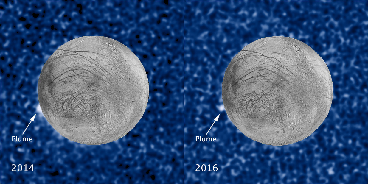 These composite images show a suspected plume of material erupting two years apart from the same location on Jupiter's icy moon Europa. The images bolster evidence that the plumes are a real phenomenon, flaring up intermittently in the same region on the satellite. Both plumes, photographed in ultraviolet light by the NASA/ESA Hubble Space Telescope, were seen in silhouette as the moon passed in front of Jupiter. The newly imaged plume, shown at right, rises about 100 kilometres above Europa's frozen surface. The image was taken on 22 February 2016. The plume in the image at left, observed by Hubble on 17 March 2014, originates from the same location. It is estimated to be about 40 kilometres high. The snapshot of Europa, superimposed on the Hubble image, was assembled from data from NASA's Galileo mission to Jupiter. The plumes correspond to the location of an unusually warm spot on the moon's icy crust, seen in the late 1990s by the Galileo spacecraft. Researchers speculate that this might be circumstantial evidence for water venting from the moon's subsurface. The material could be associated with the global ocean that is believed to be present beneath the frozen crust.